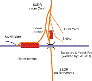 Railway routes at Templecombe from 1870